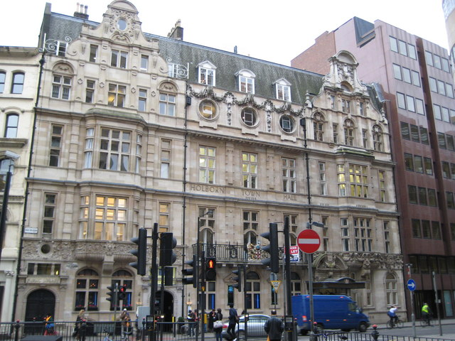 Holborn Town Hall The Town Hall was built in 1908 on High Holborn to serve the Metropolitan Borough of Holborn. However in 1965 the Borough was amalgamated with two other Metropolitan Boroughs, St Pancras and Hampstead, to form the London Borough of Camden. The building consequently lost its original use but has since been converted to offices.